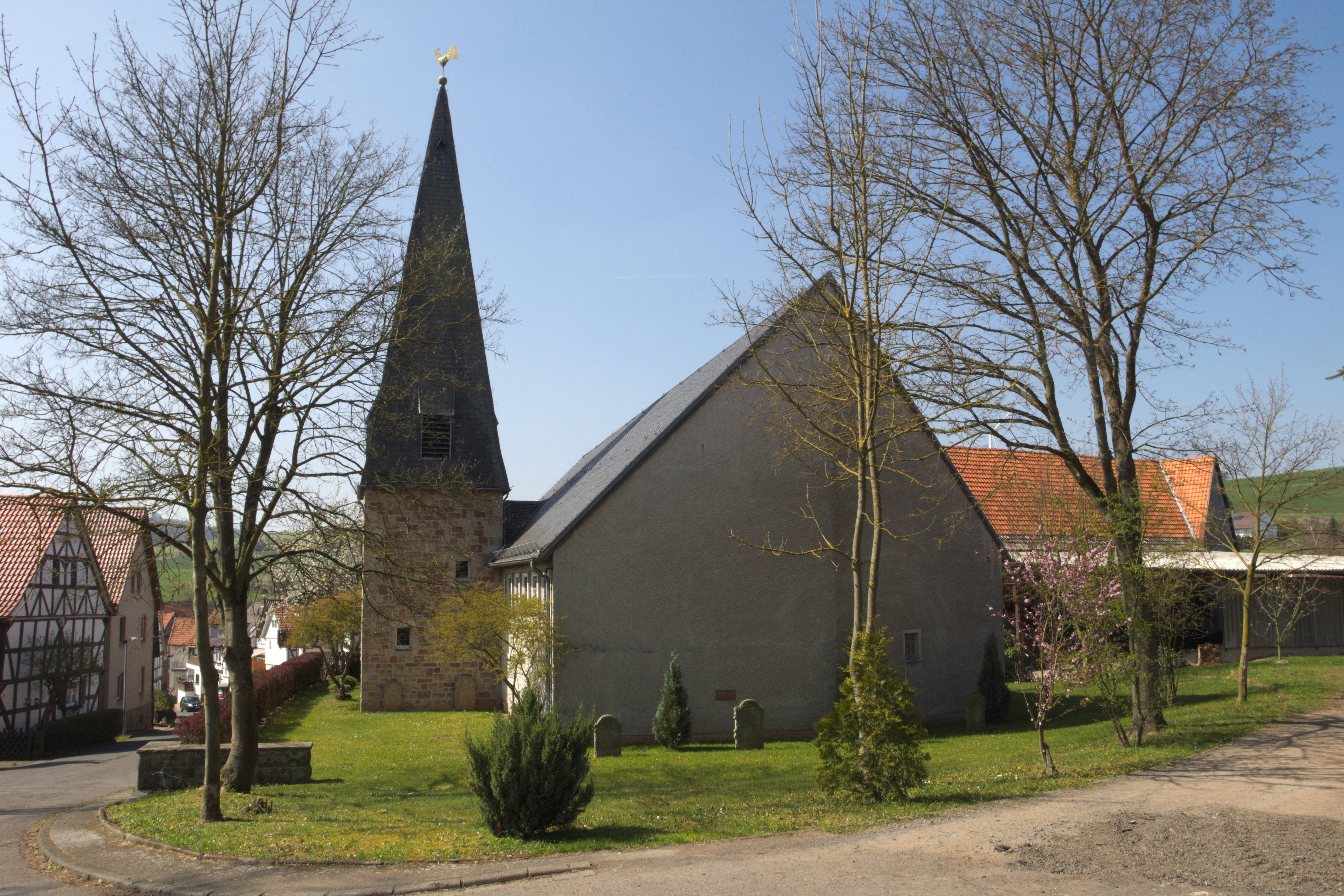 Protestant Church in Hattenbach, Schlossberg, Hattenbach, Niederaula, Hesse, Germany